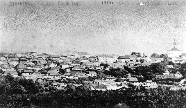 Photo of Dunaivtsi city in 1910.